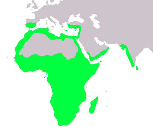 Repartition map of the members of the Cameleonidae family